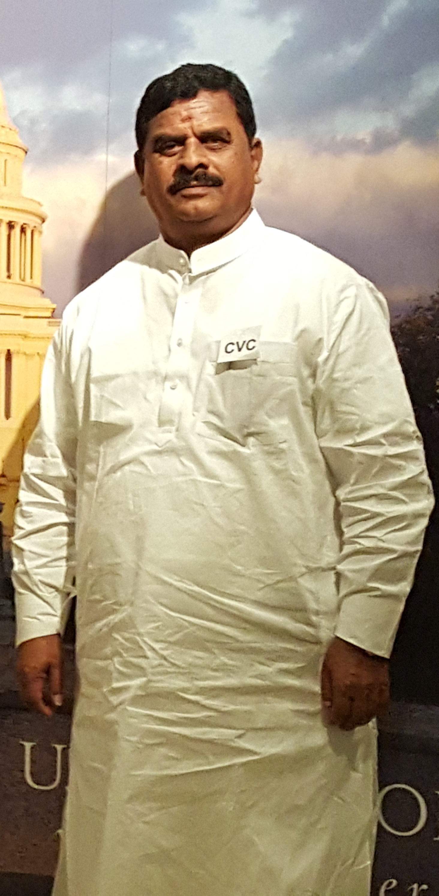 Swamy at the US as of October 2015